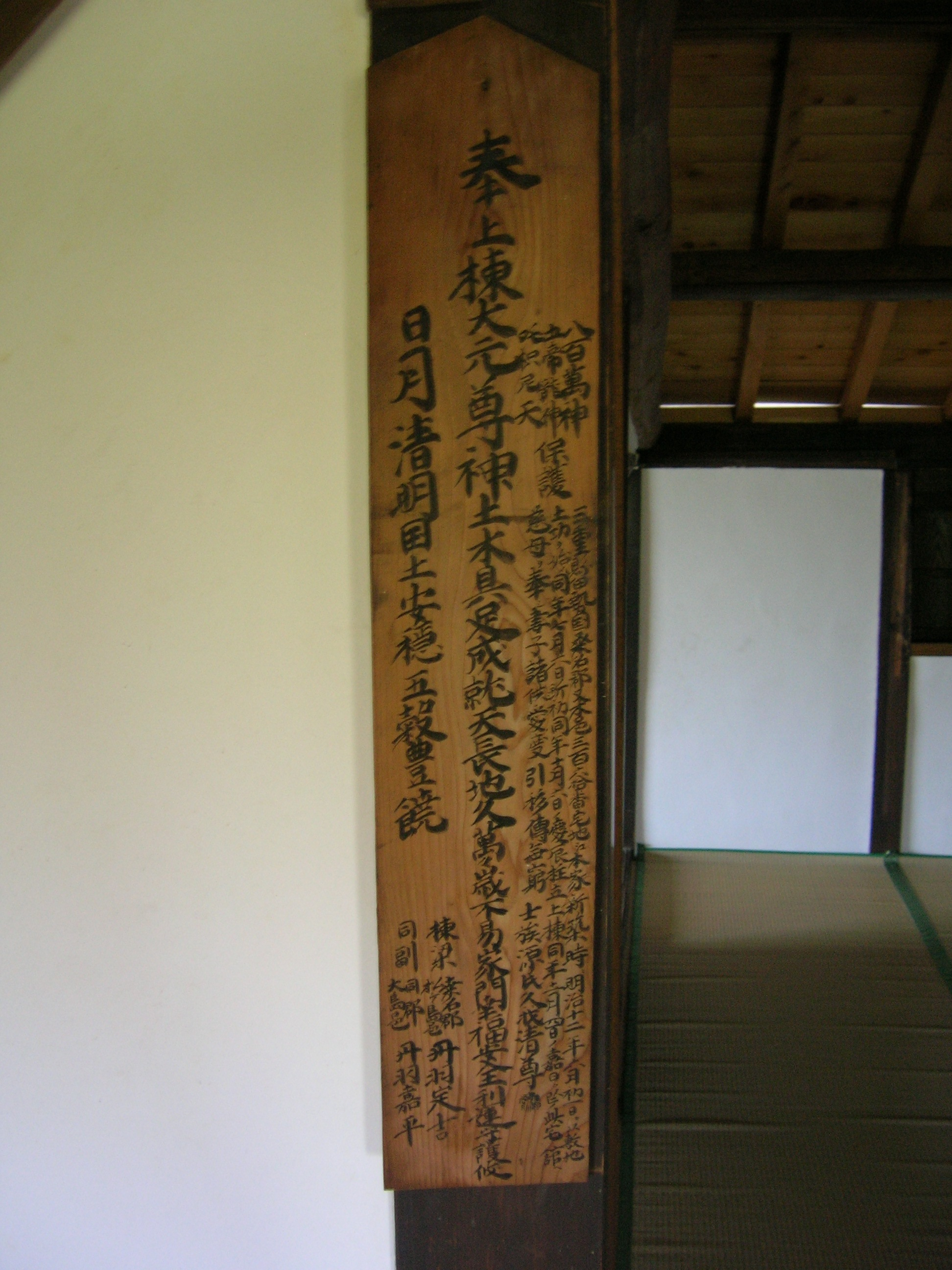 Traditional Japanese building information such as the names of the owners and builder and reason for construction or repairs. Sometimes these boards are placed during the topping out (ridge beam ceremony?)(Translation of name is needed)